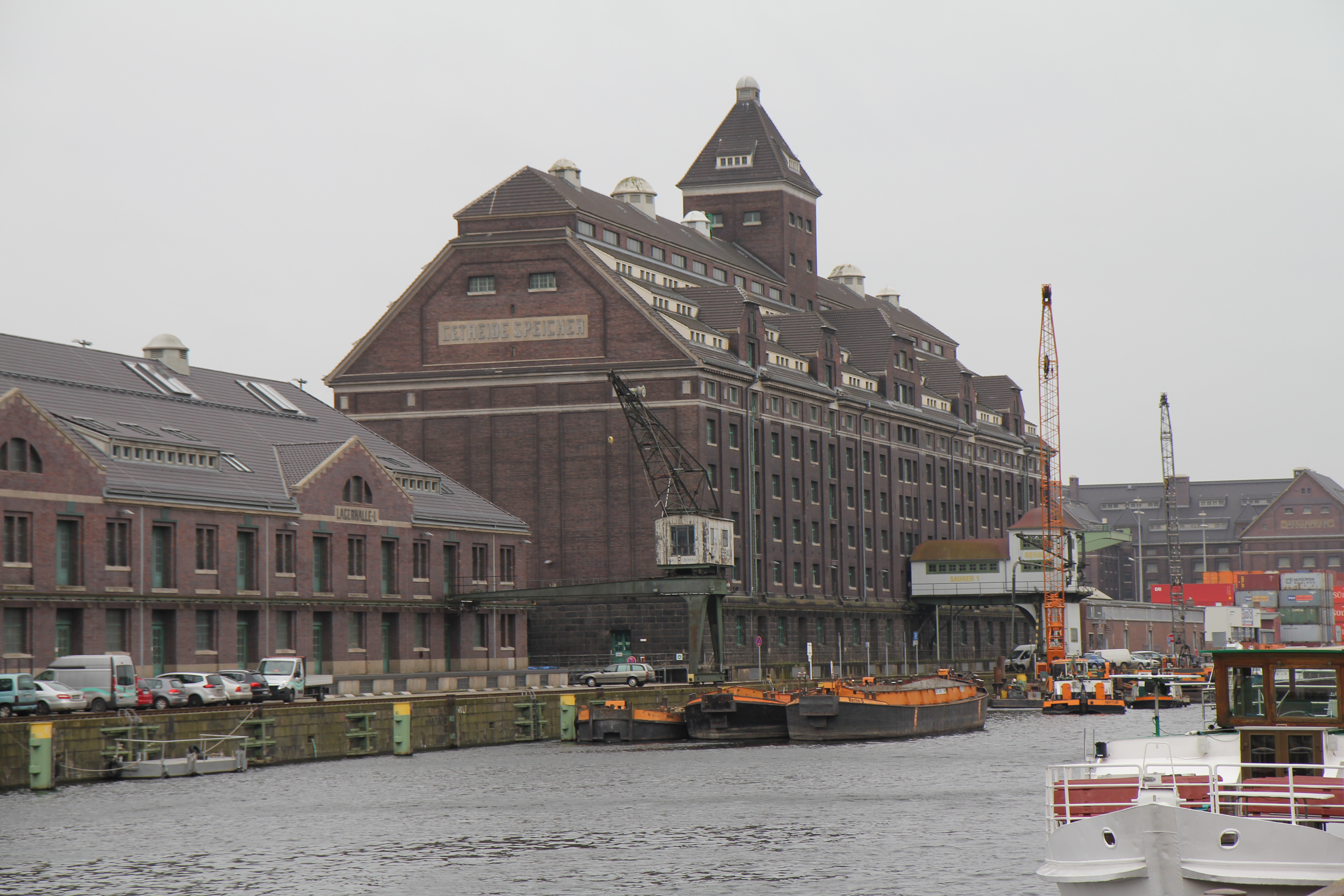 View over basin no. 2 of Berlin Westhafen on the old granary and warehouse no. 1